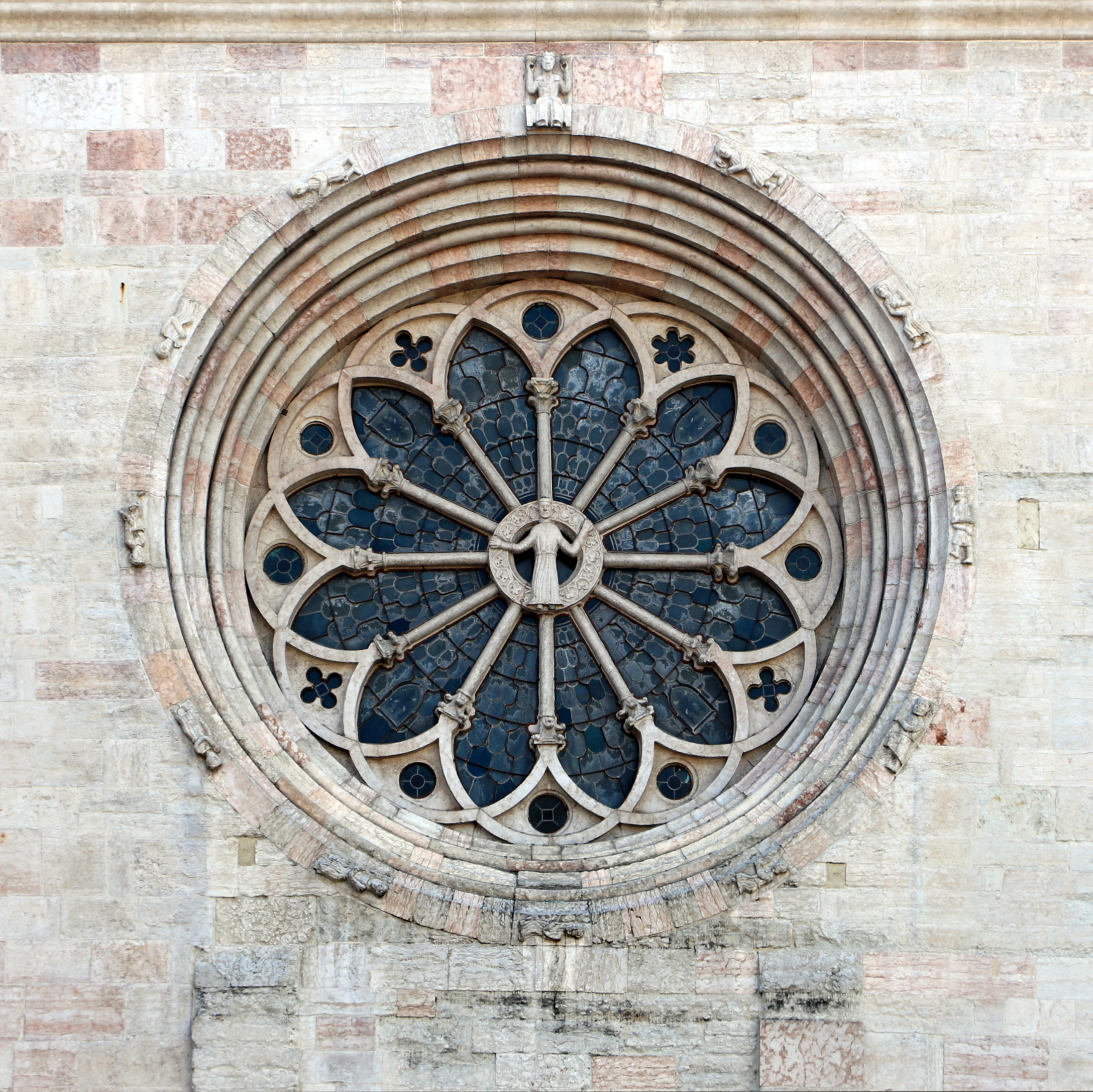 Churches in Trento